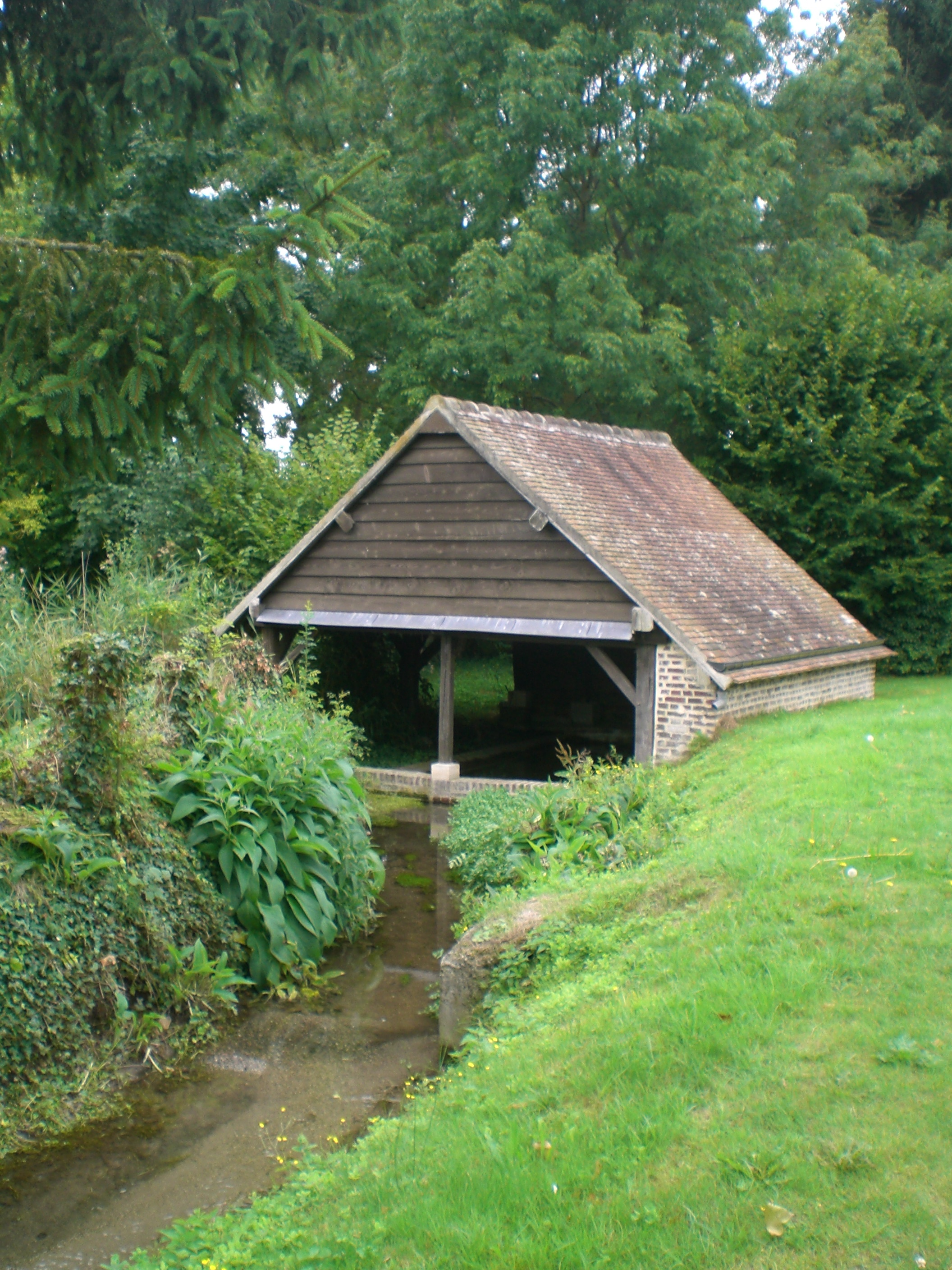 Rivers "esches" to Fosseuse oise france